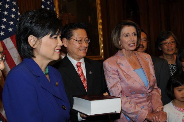 Judy Chu and her husband, Mike Eng, and Nancy Pelosi during Chu's Swearing In ceremony.